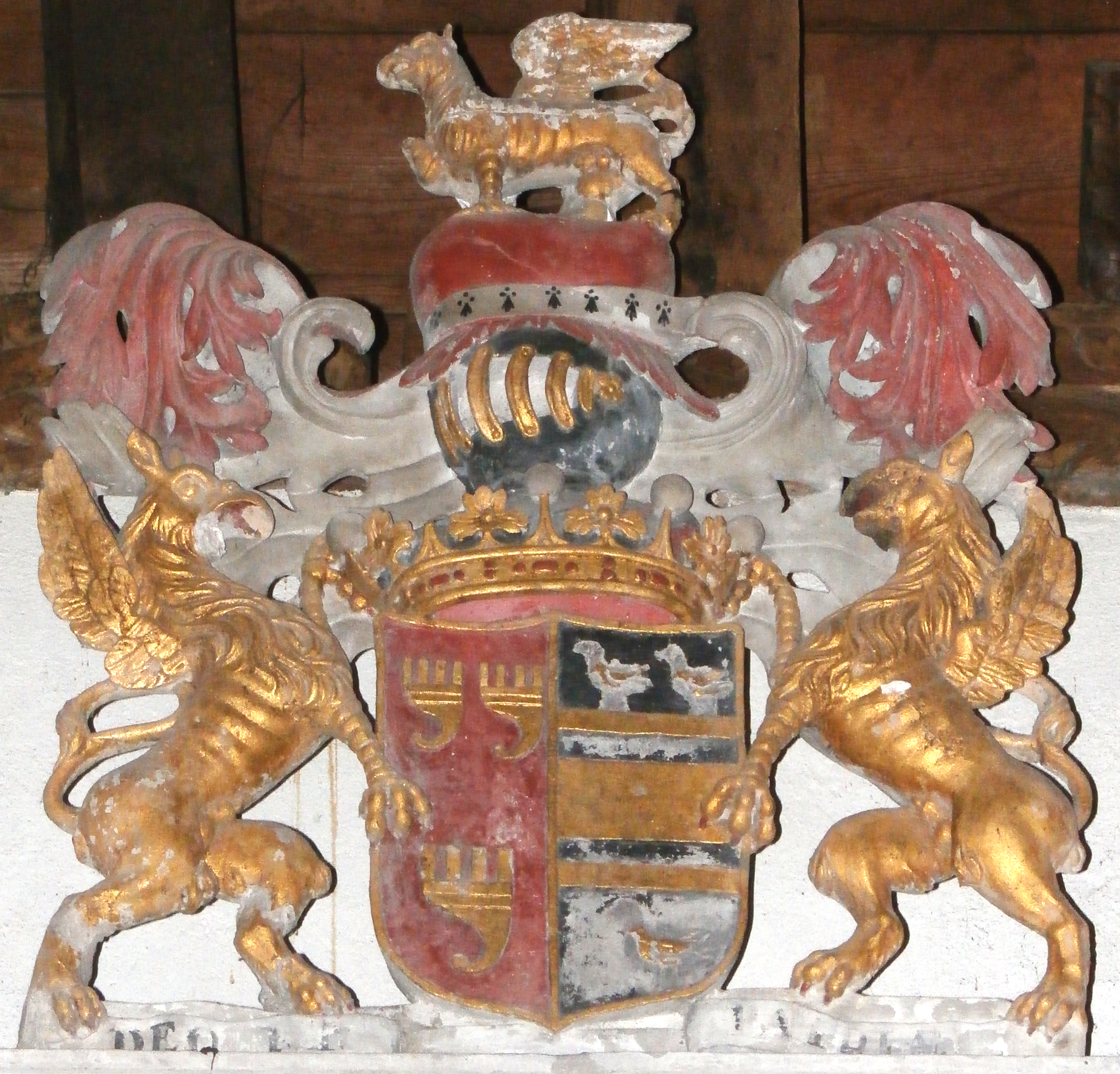 Arms of Grenville (Gules, three clarions or) impaling Smith of Exeter (Sable, a fess cotised between three martlets or), with crest above of Grenville (On a chapeau gules turned-up ermine a griffin passant or) and supporters of Grenville (Two griffins or). Heraldic achievement of Sir Bevil Grenville (1594/5-1643) lord of the manors of Bideford in Devon and of Stowe in the parish of Kilkhampton, Cornwall, a Royalist commander in the Civil War, killed in action at the Battle of Lansdowne in 1643. He served as MP for Cornwall 1621–1625 and 1640–1642, and for Launceston 1625–1629 and 1640. He married Grace Smith, a daughter by his second marriage of Sir George Smith (d.1619) of Madworthy, near Exeter, Devon, a merchant who served as MP for Exeter in 1604, was three times Mayor of Exeter and was Exeter's richest citizen.